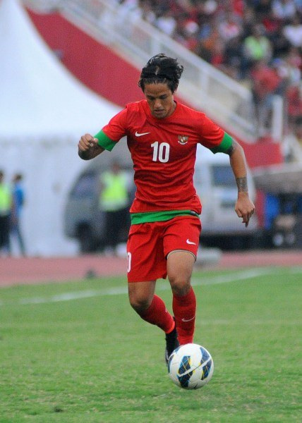 Irfan Caps